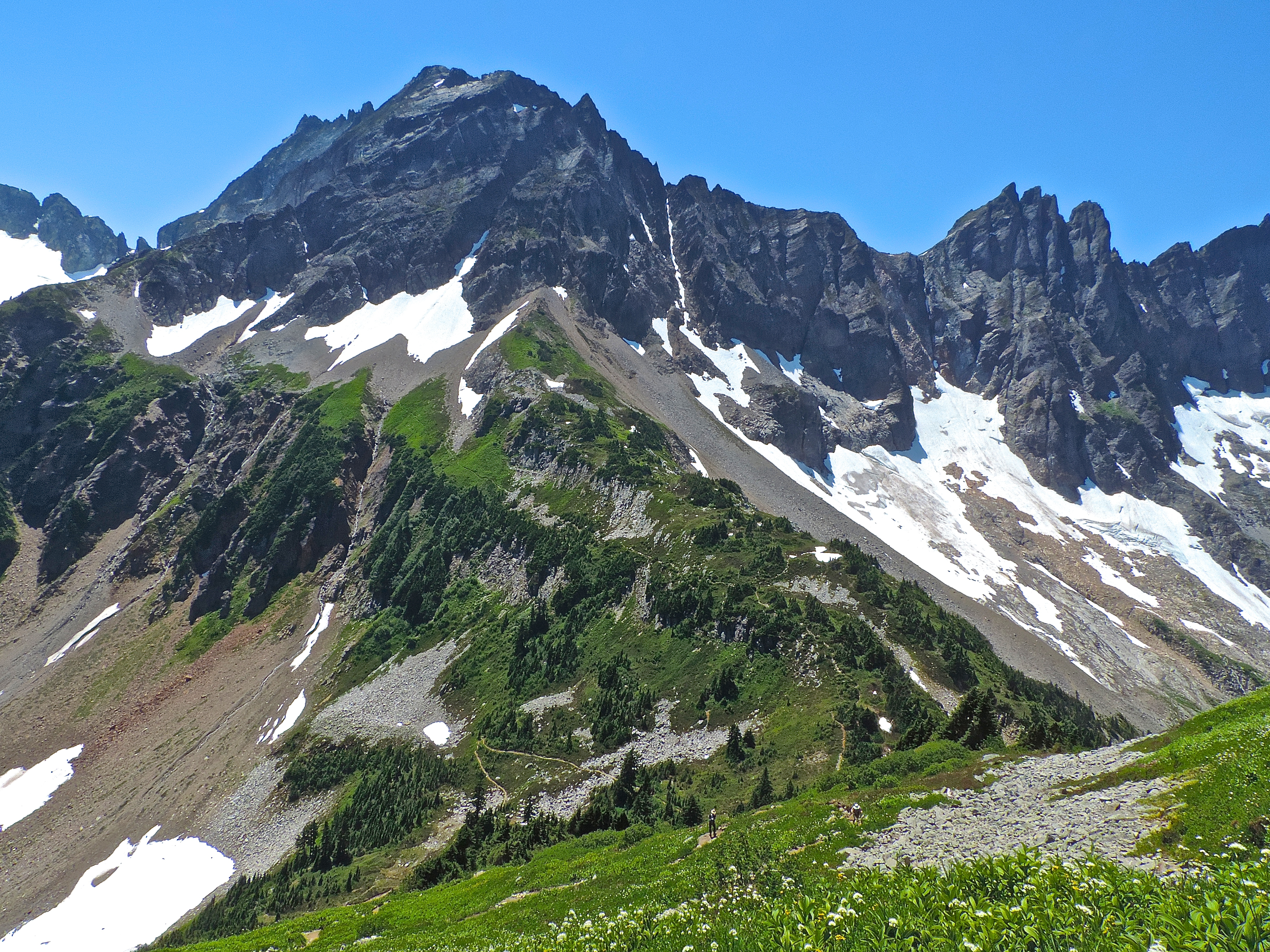 Mix-up Peak and Mixup Arm seen from Sahale Arm. North Cascades National Park